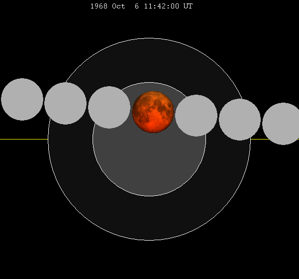 October 1968 lunar eclipse chart of moon's path through the earth's shadow. thumb